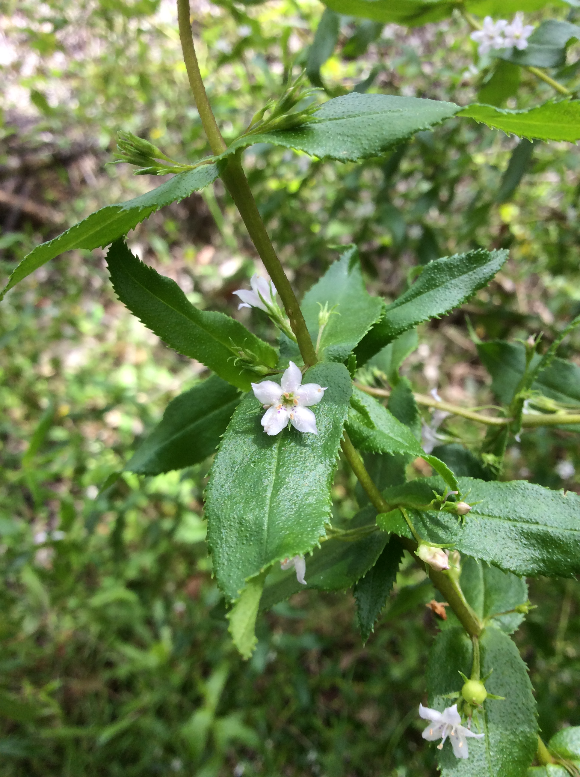 Twin-leaf myoporum (Myoporum oppositifolium), Beedelup Falls, Western Australia